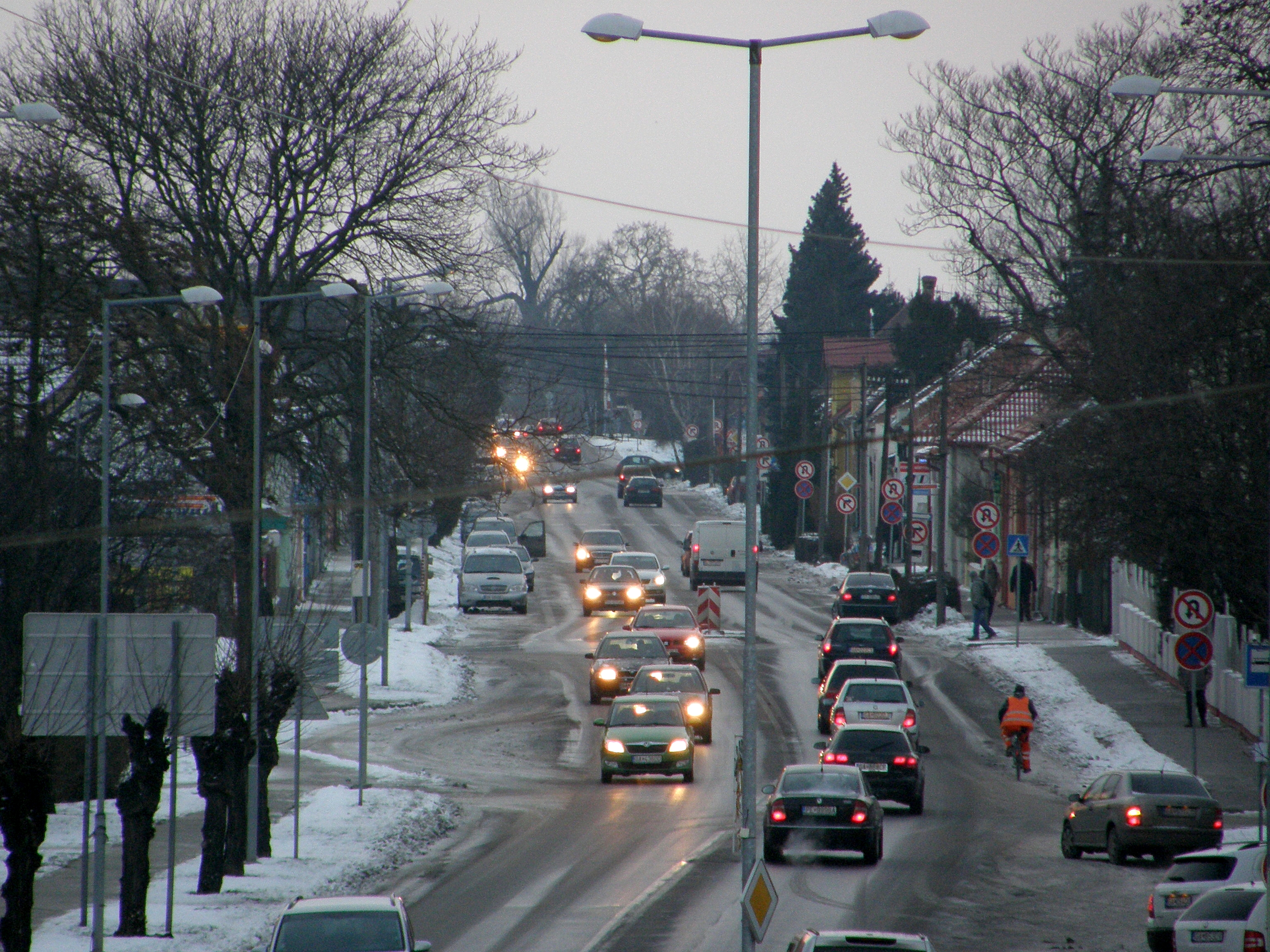 Bratislavská Street in Galanta, Slovakia